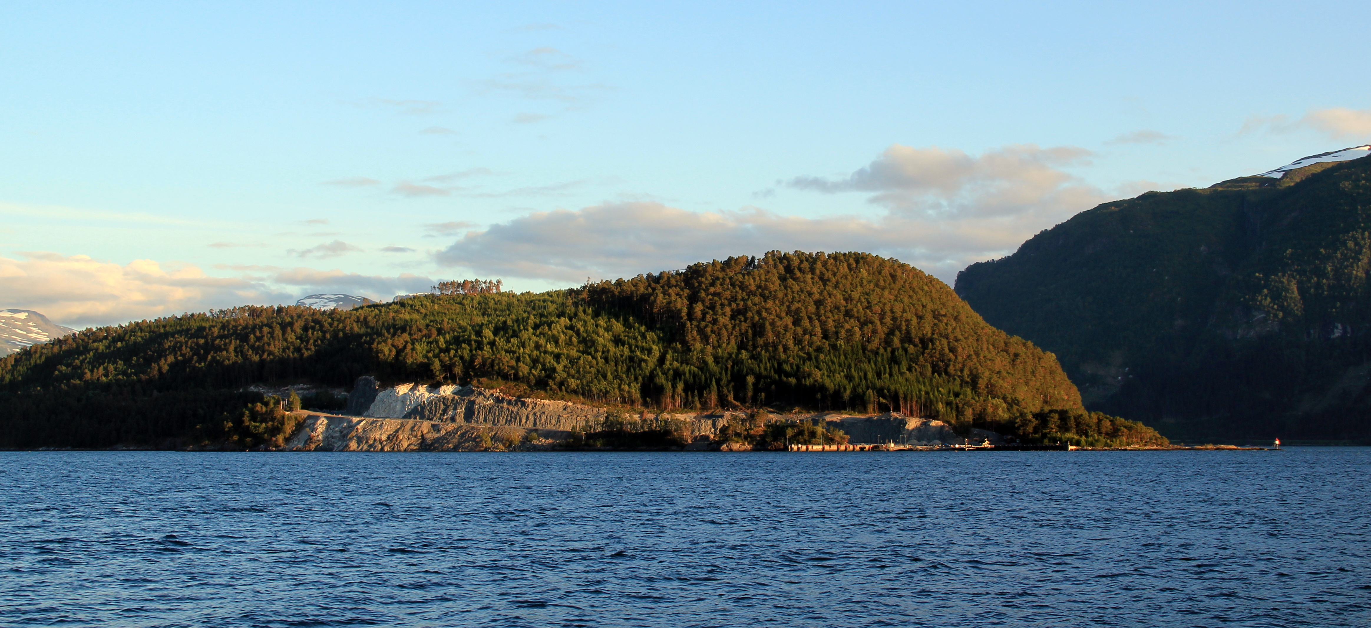 Ferrylanding Anda, Gloppen under rebuilding